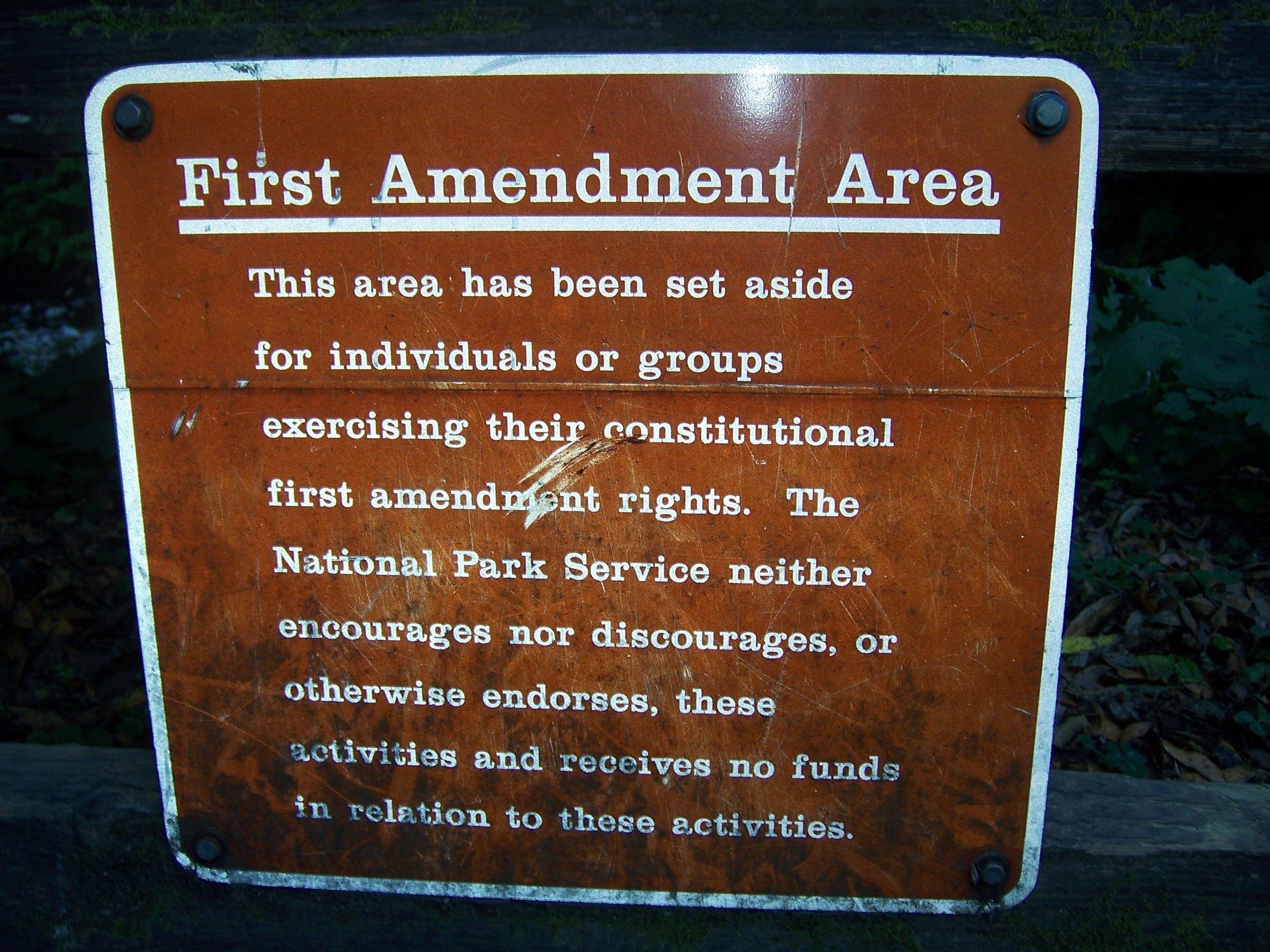 A "First Amendment Area" at Muir Woods. English text reads "First Amendment Area: This area has been set aside for individuals or groups exercising their constitutional first amendment rights. The National Park Service neither encourages nor discourages, or otherwise endorses, these activities and receives no funds in relation to these activities."